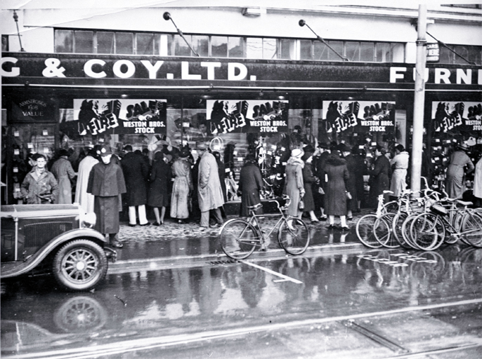 A fire sale of the stock of Weston Bros. & Co., 188 Hereford Street, held at the premises of T.J. Armstrong & Co., corner of Colombo and Armagh Streets, Christchurch. A spectacular fire on 31 October 1933 destroyed most of the four-storey building at 188 Hereford Street occupied by Weston Bros. & Co., leather goods merchants, also Chandler & Co. Ltd., advertising agents and the Bencol Oil Company. At the time it was reported that all of Weston Bros.' stock of fancy leather goods was destroyed, but enough was salvaged to be sold in a fire sale later. (see The Press, 1 Nov. 1933, p. 10)